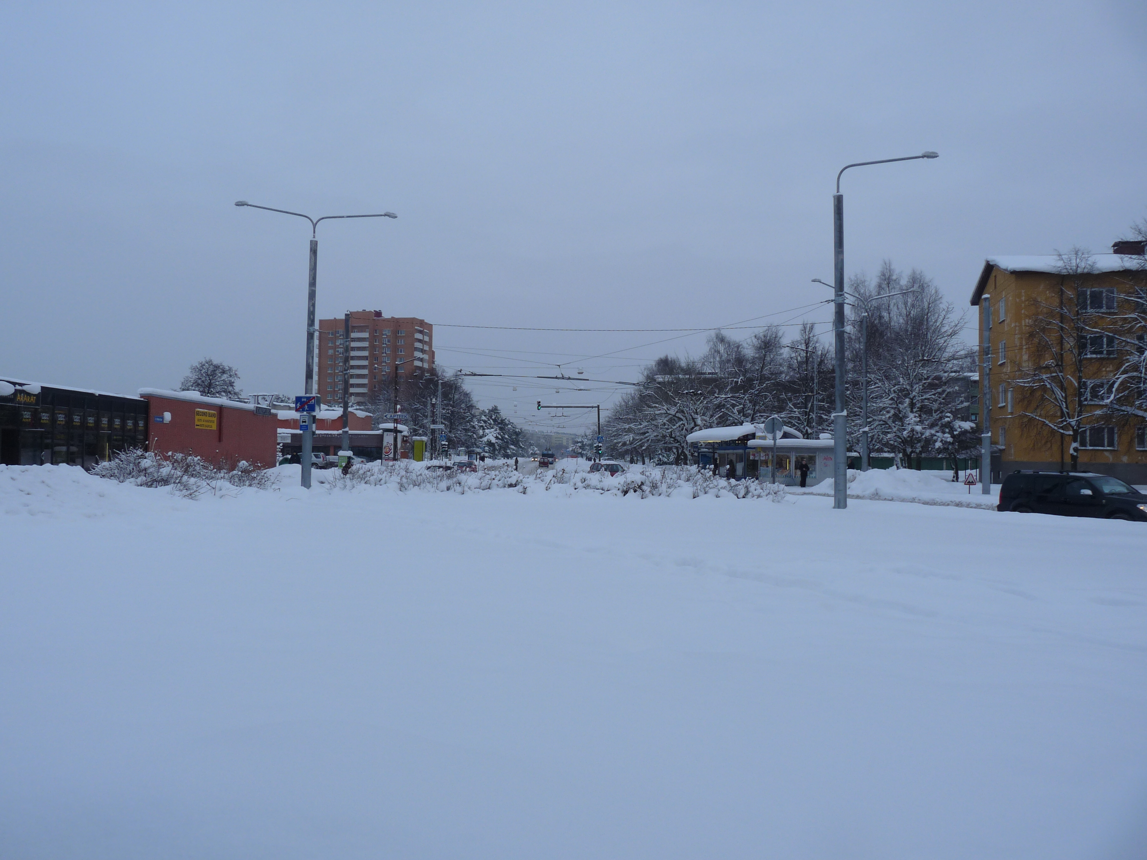 Vilde street in Tallinn